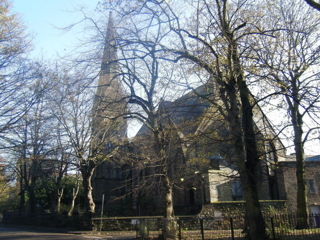 St Mary's Church, Wavertree. Seen from the west on North Drive.